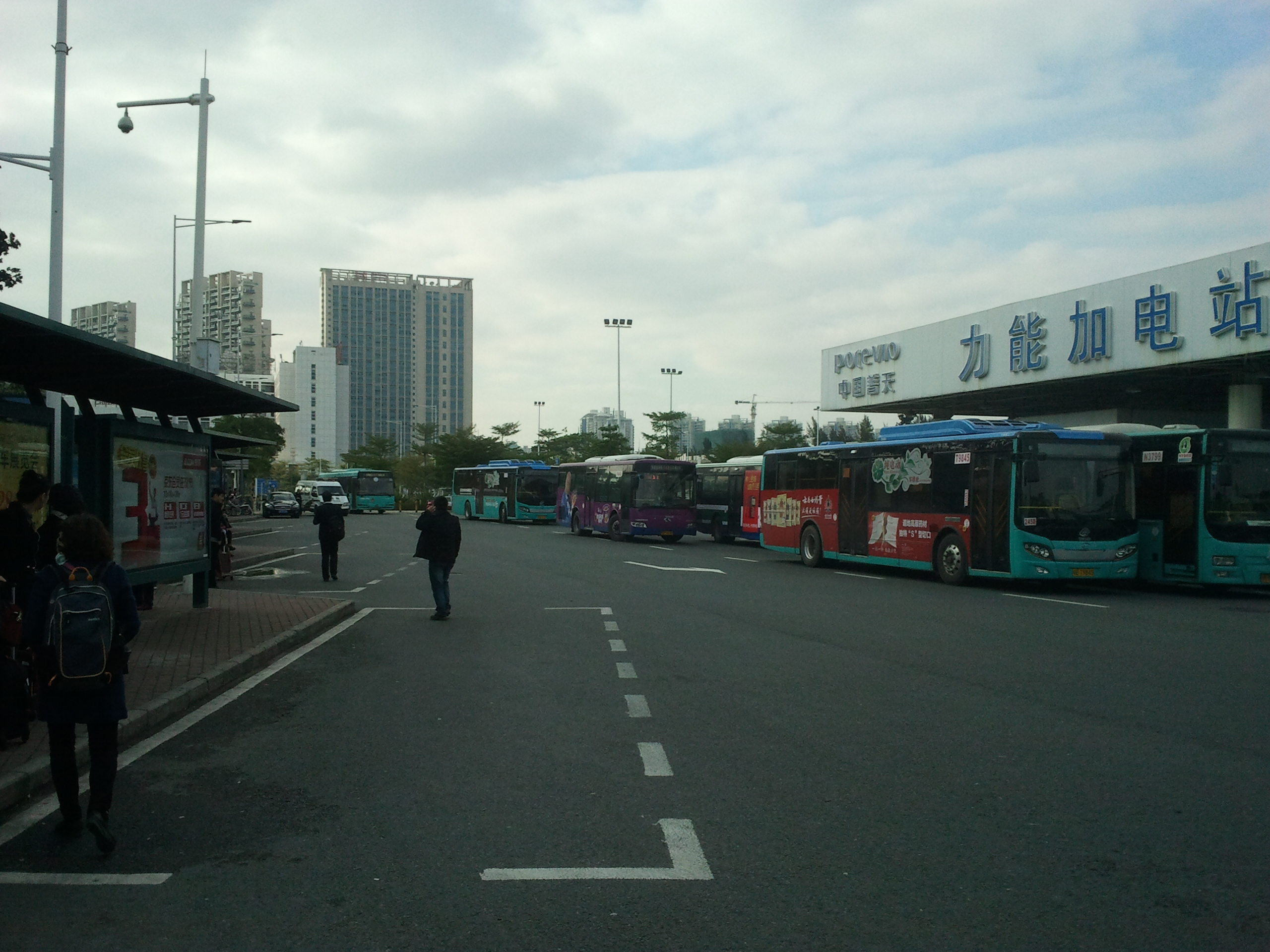 Shenzhen Bay Port Bus Terminus(Shenzhen)